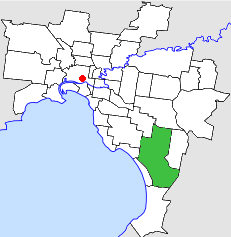 Location of the City of Springvale within Melbourne.